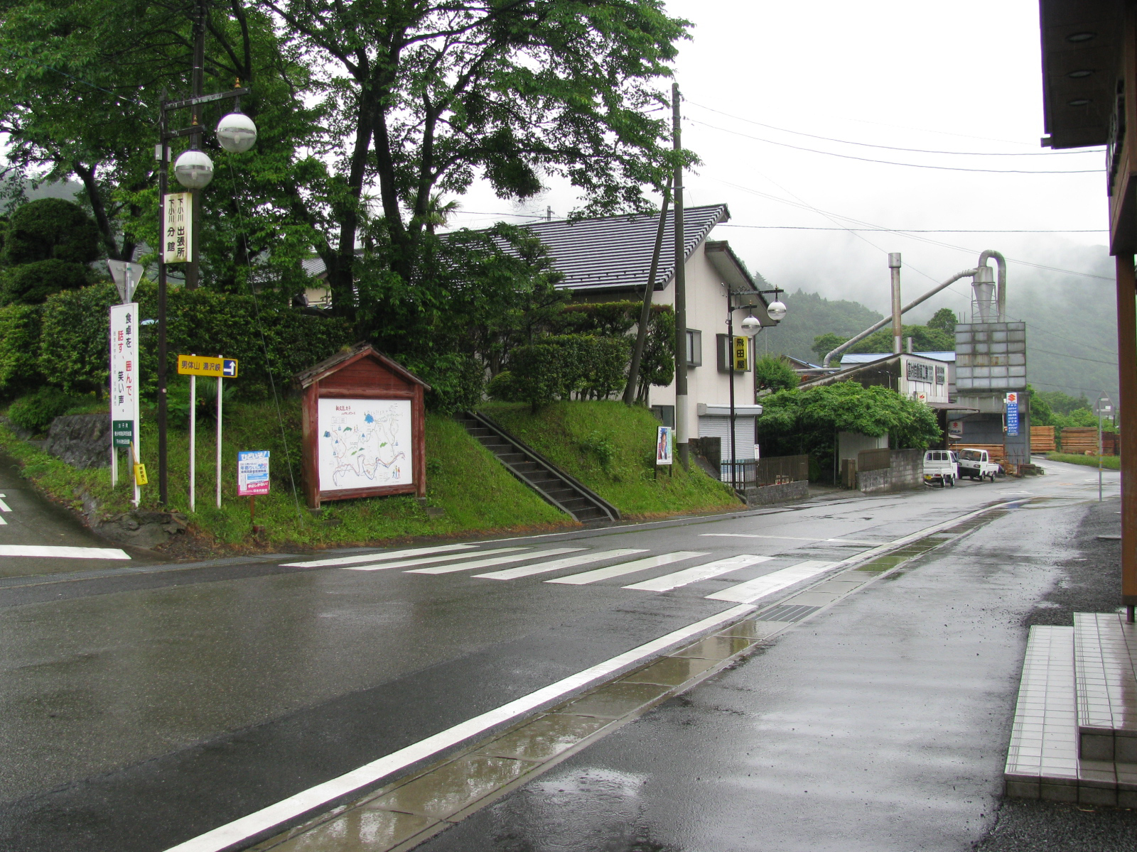 Saigane Station on JR Suigun line